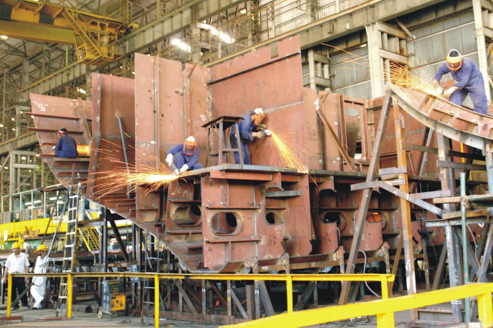 A Hull module unit of the 3rd Project 15A Kolkata Class destroyer being built in the Assembly Shop at Mazagon Docks Ltd, Mumbai. The 15A destroyers are being indigenously designed, developed and built for use by the Indian Navy, and are the first Indian warships being indigenously built using modular construction techniques.